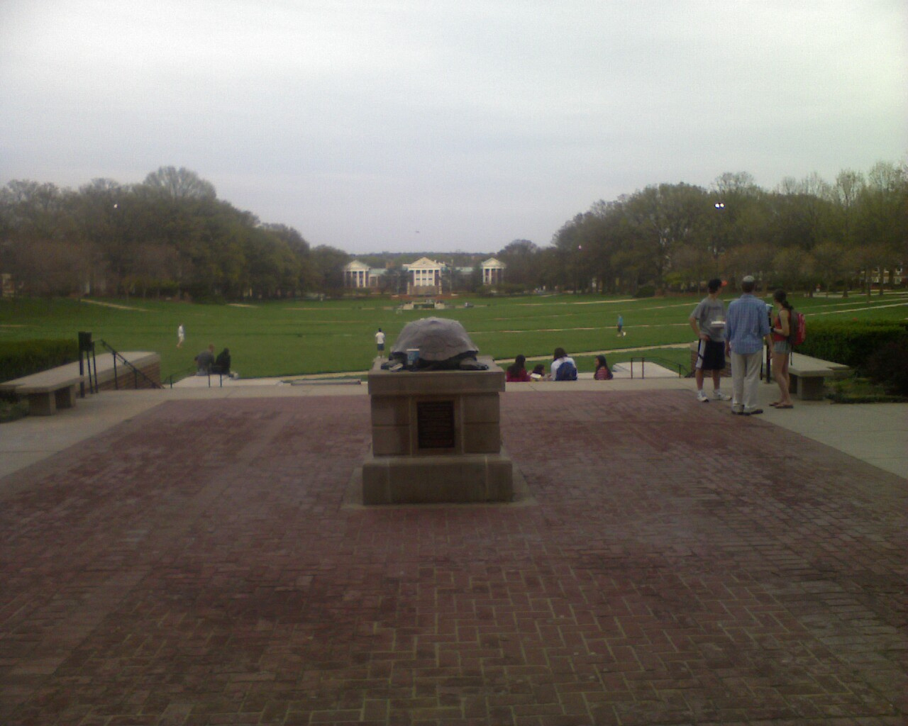 View of McKeldin Mall on the campus of the University of Maryland, College Park, from the front entrance of McKeldin Library. A statue of Testudo, the university's mascot, can be seen.